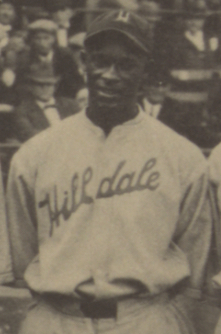 Frank Warfield at the 1924 Colored World Series. LOC states here that there are no restrictions on use of this image, therefore it is PD. This file has been extracted from another file: 1924 Negro League World Series.jpg